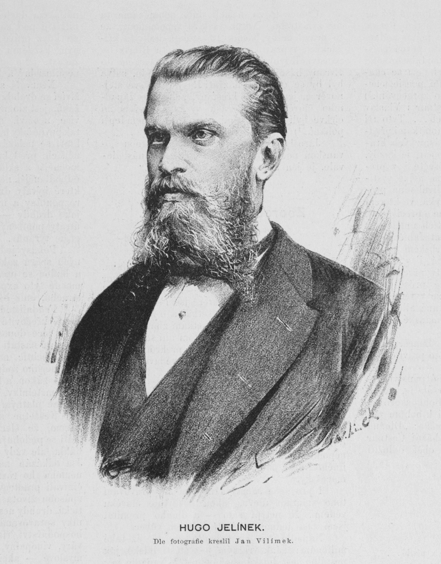 Portrait of Hugo Jelínek (1834-1901), Czech industrialist, expert on building and operating sugar factories.